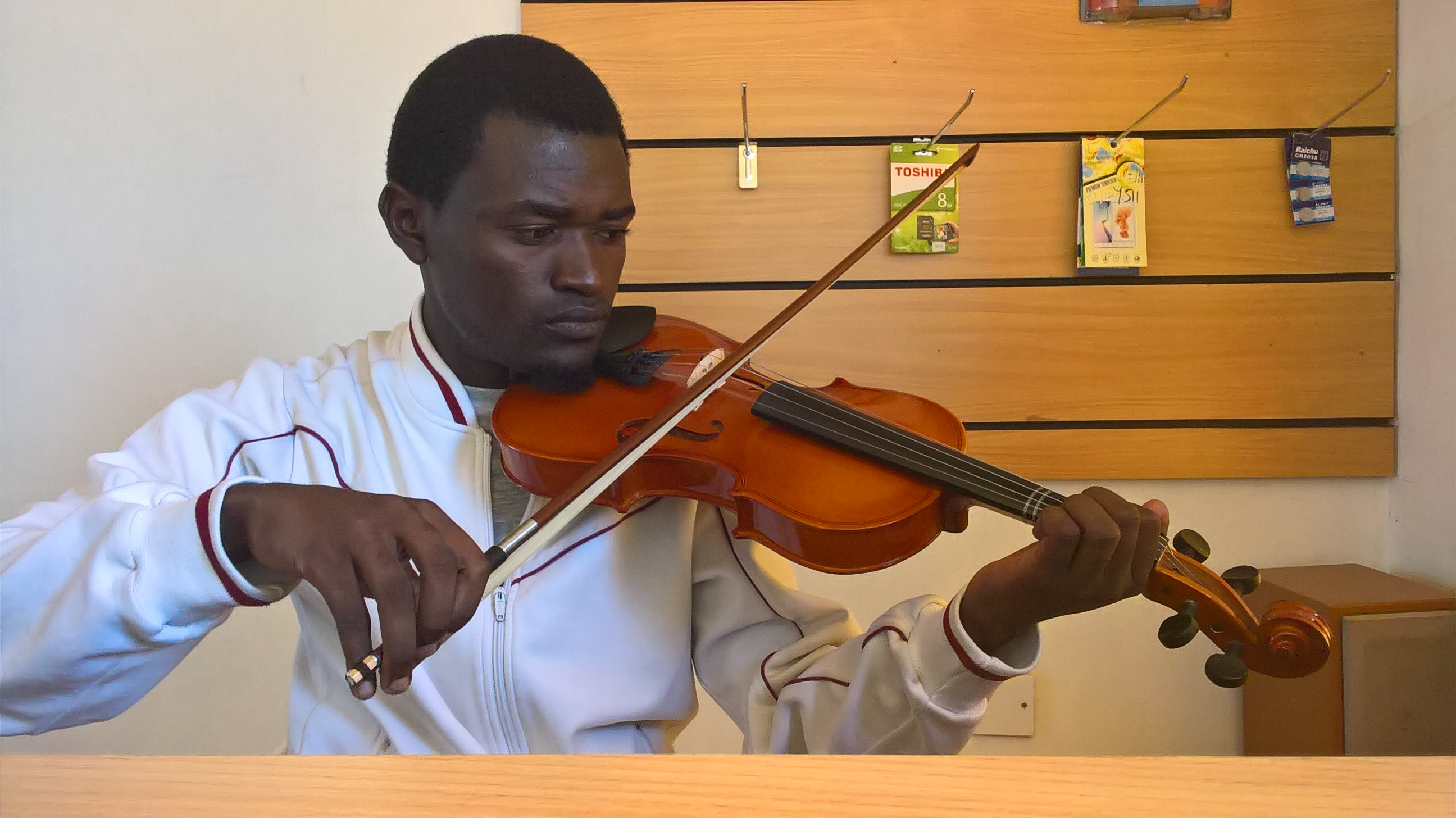 playing violin during violin class sessions This is an image of "African people at work" from Kenya